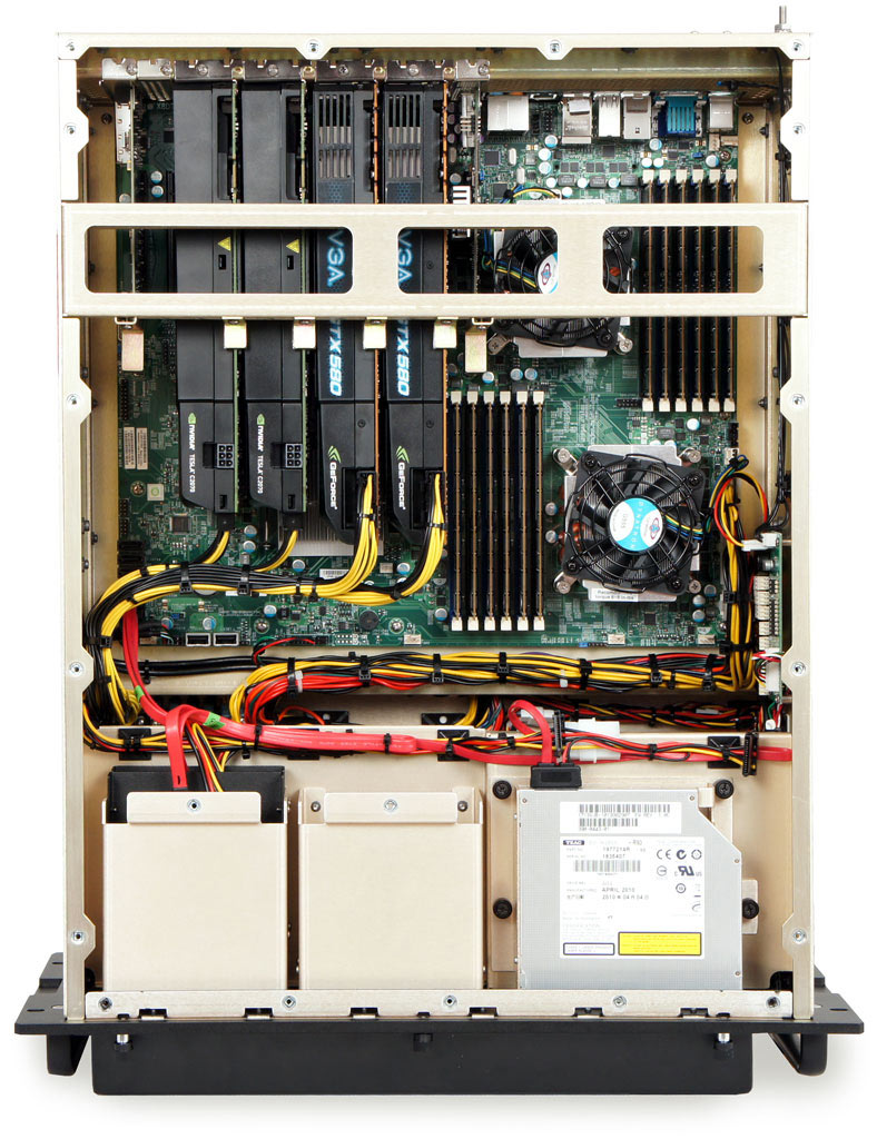 This picture shows internal structure of CCR 919. As CCR is a personal super computer so it is small in size.